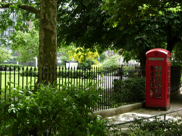 Brunswick Square, Bloomsbury. Leafy squares characterise the Bloomsbury district of London. Brunswick Square was originally part of the recreation grounds of the Foundling Hospital.